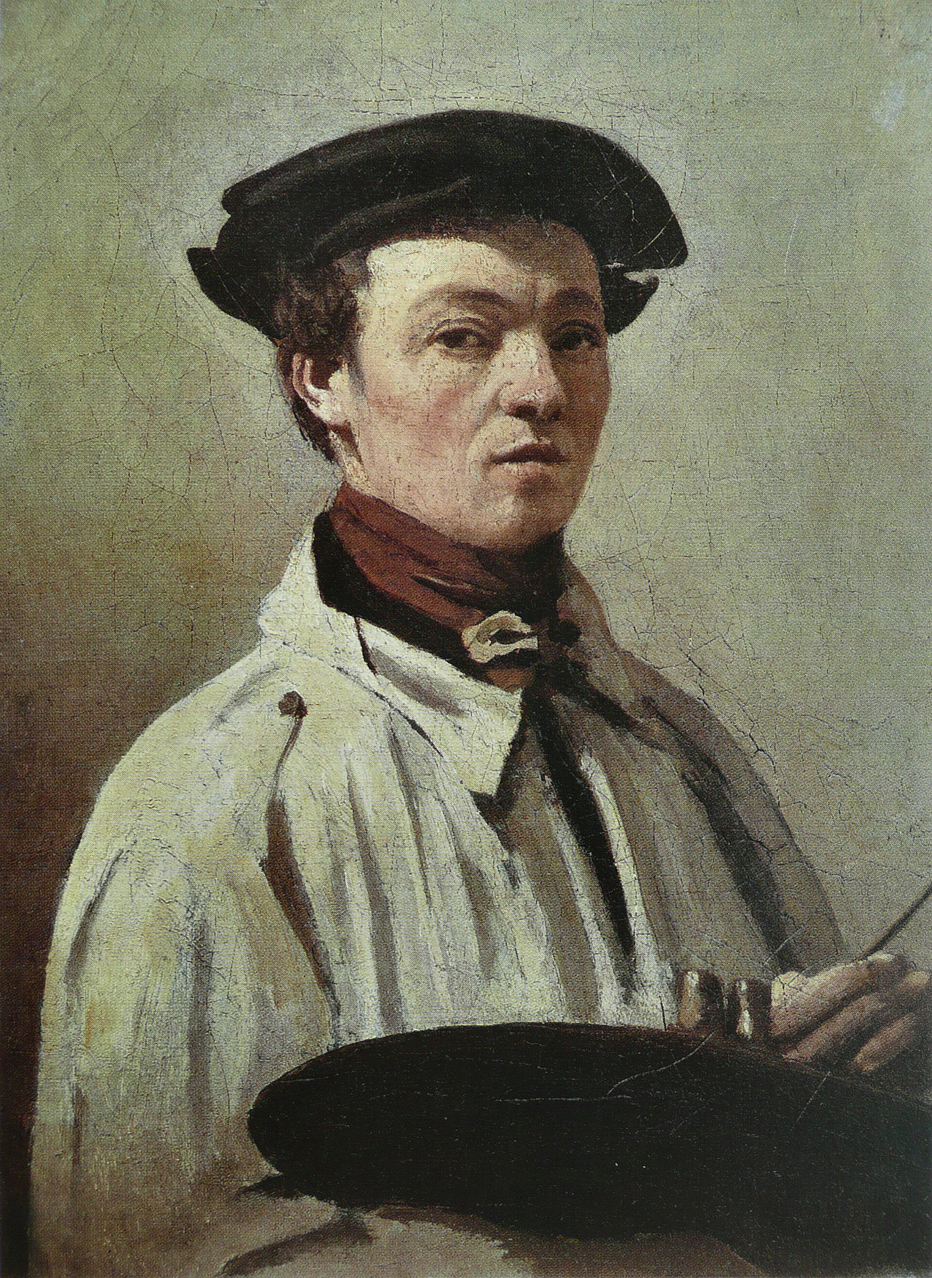 Self-portrait of Jean-Baptiste Camille Corot with palette in hand